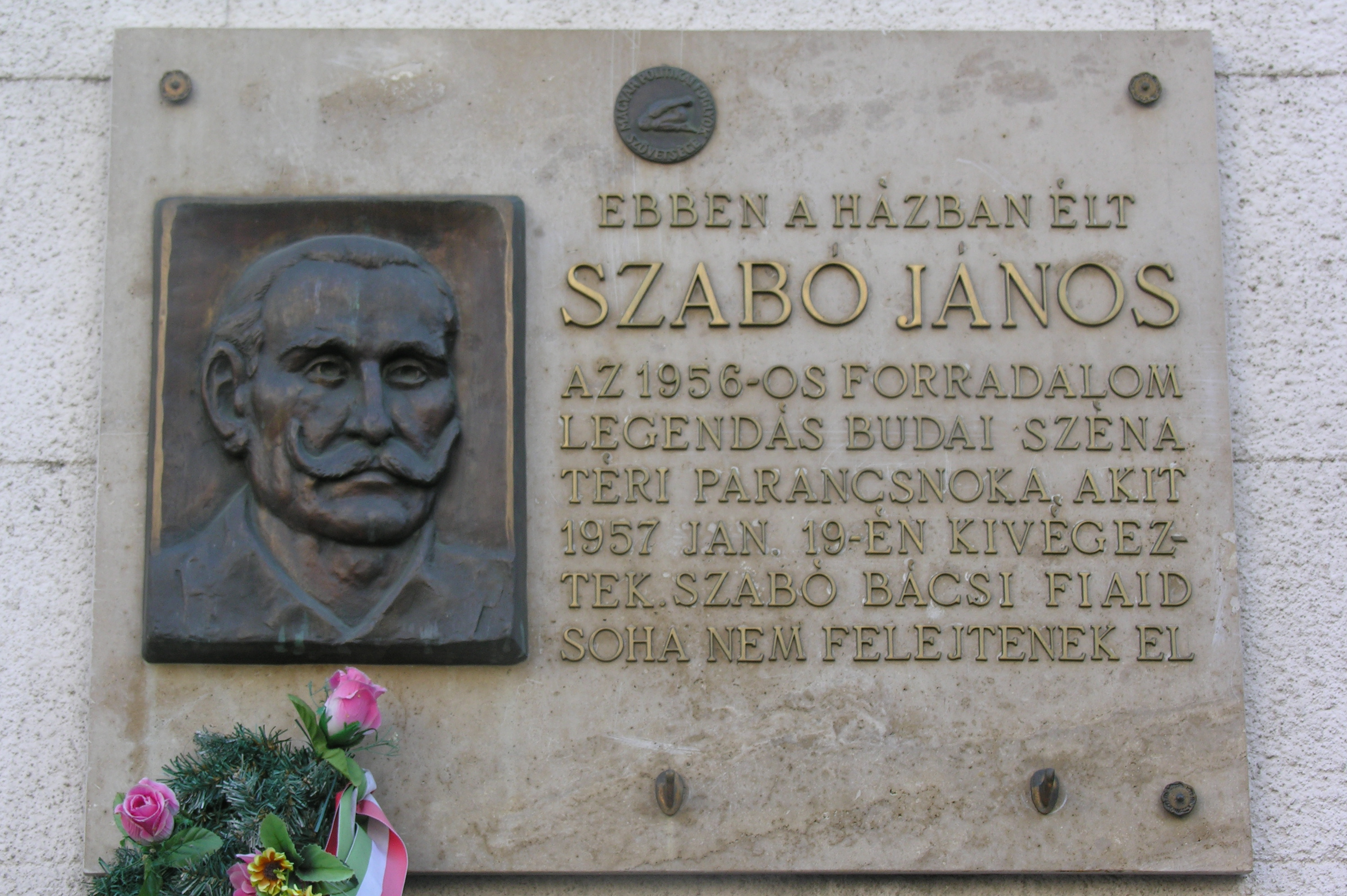 Commemorative plaque of János Szabó (1897–1957) in Budapest District II, Lövőház Street No 15